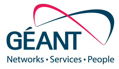 GÉANT